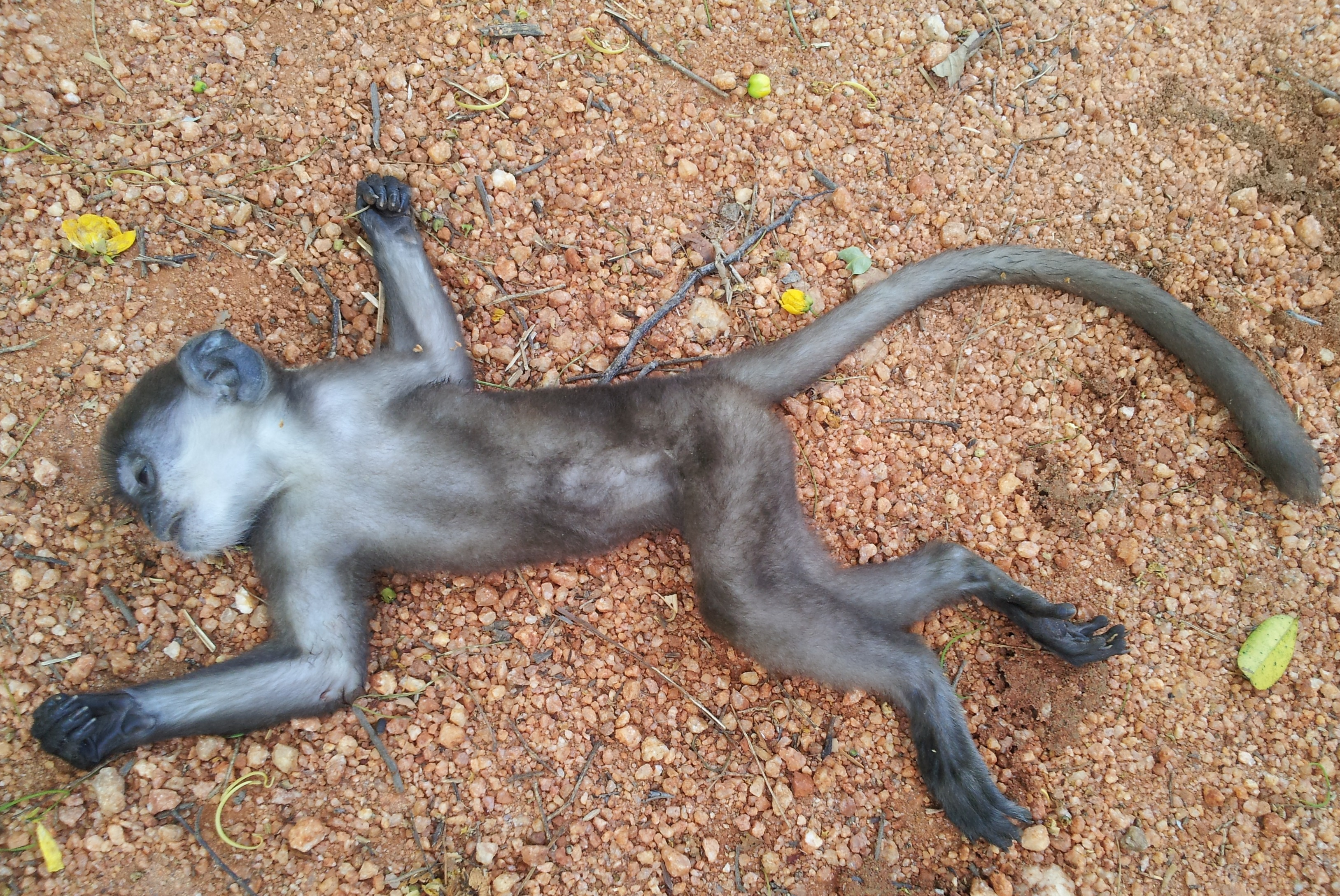 Purple-faced leaf monkey juvenile attacked by a Black eagle and dead, found and photographed at Kaludiya Pokuna, Kandalama, Sri Lanka.